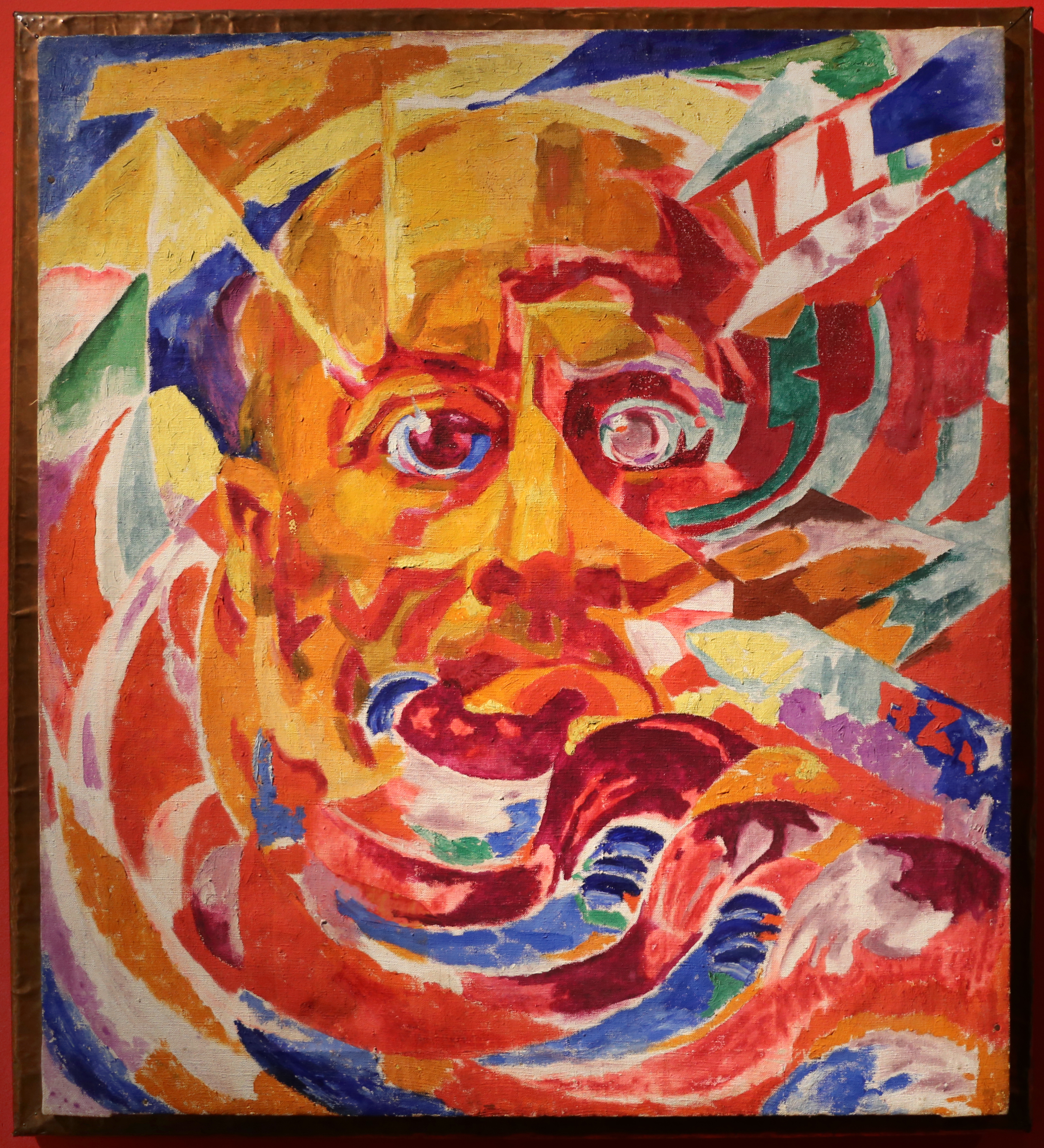 Futurismo